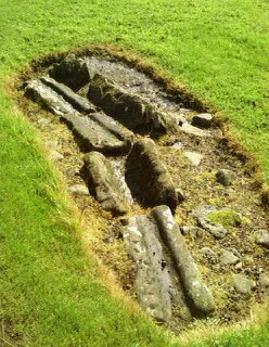 Vindolanda (Chesterholm) Roman forts, civil settlement and cemeteries, adjacent length of the Stanegate Roman road and two miles Wikidata has entry Q17668738 with data related to this item.